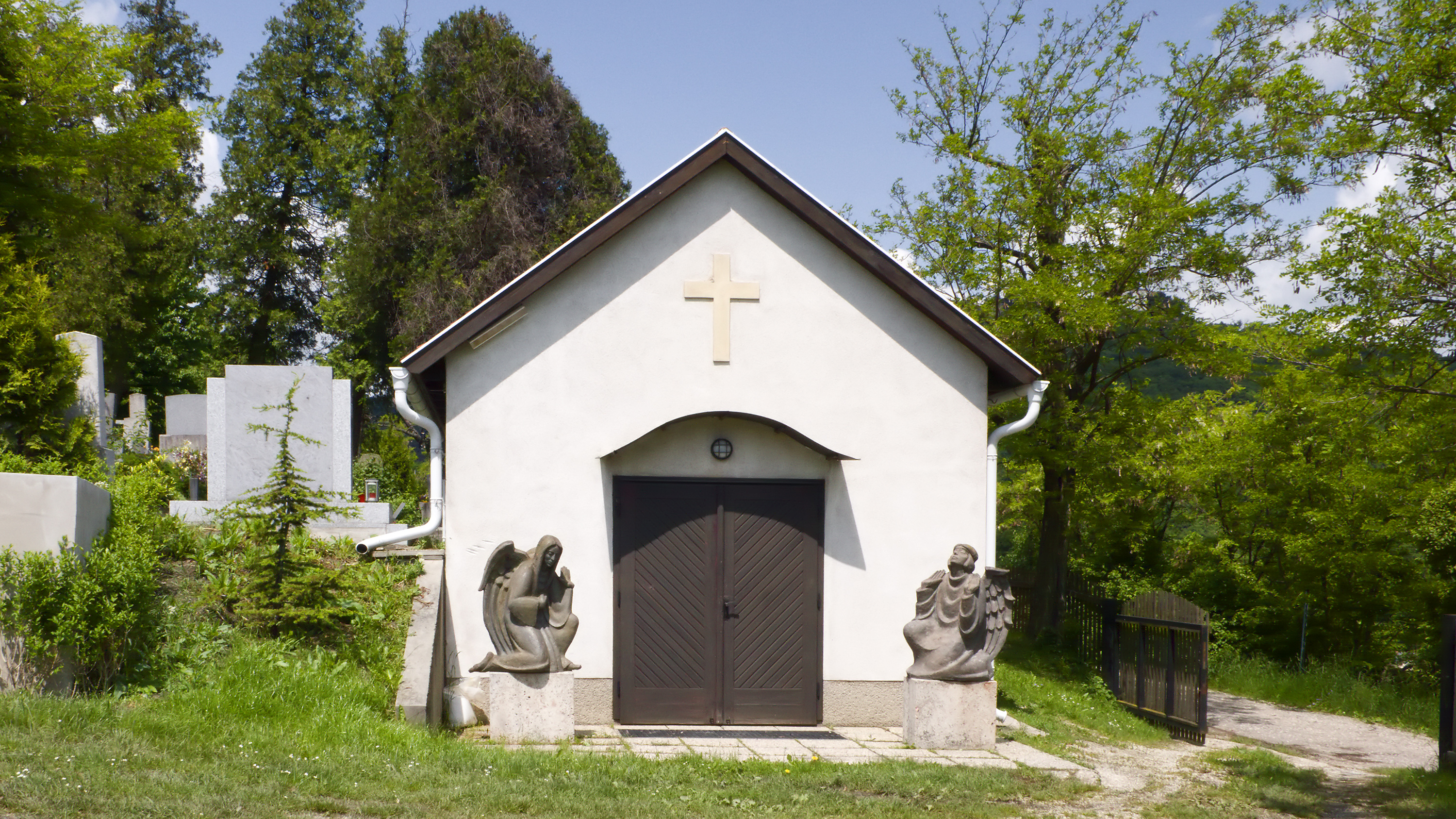 Cemetery Pfarrfriedhof Kahlenbergerdorf in Vienna Döbling